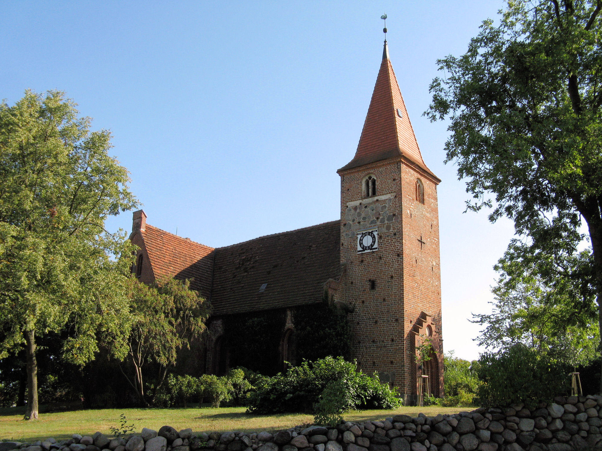 Church in Gielow, disctrict Demmin, Mecklenburg-Vorpommern, Germany